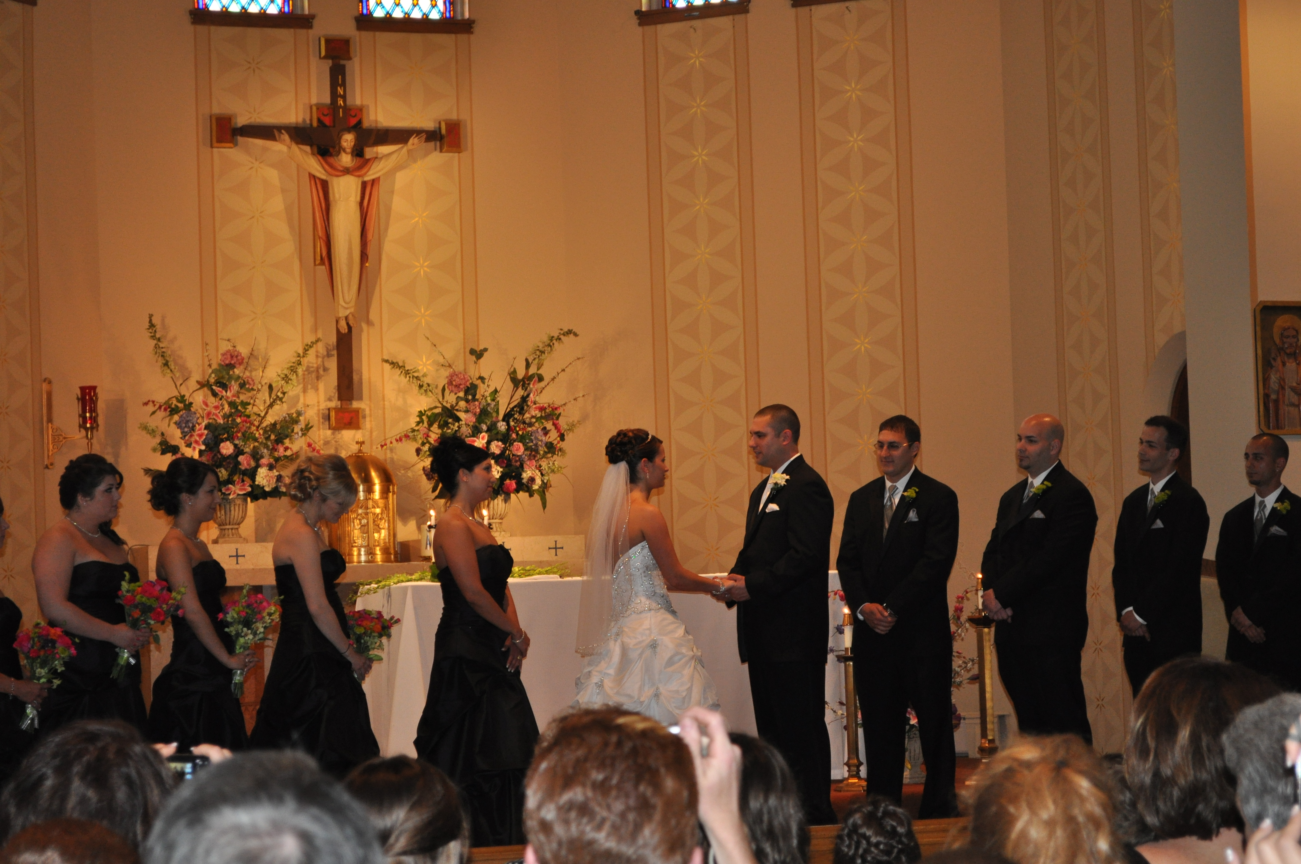 A Catholic wedding ceremony in Milwaukee, Wisconsin.